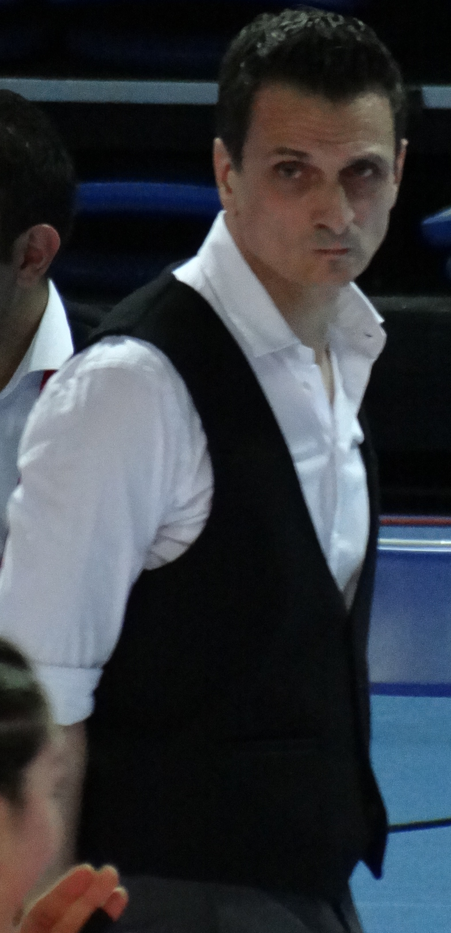 Giovanni Guidetti Vakıfbank SK TWVL 20180426